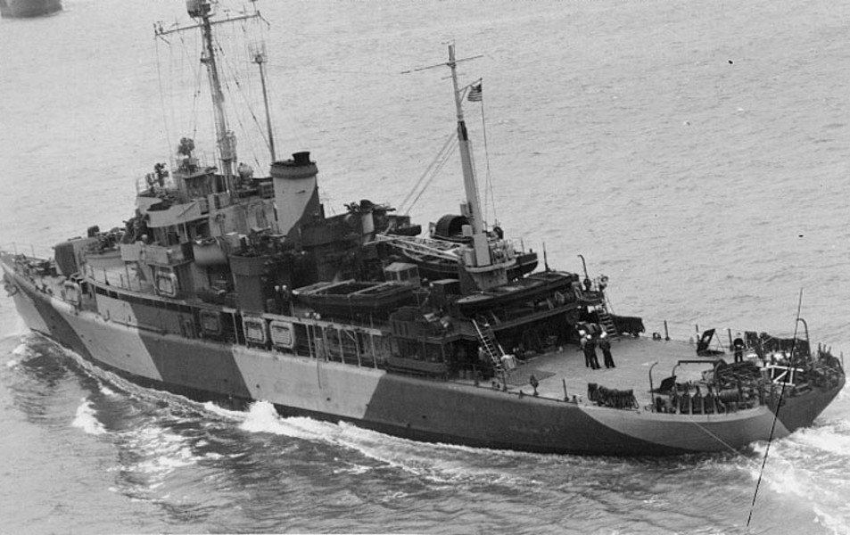 Photo #: NH 46913 USS Humboldt (AVP-21) Photographed off Norfolk, Virginia, on 17 November 1944 by an aircraft from the Norfolk Naval Air Station.